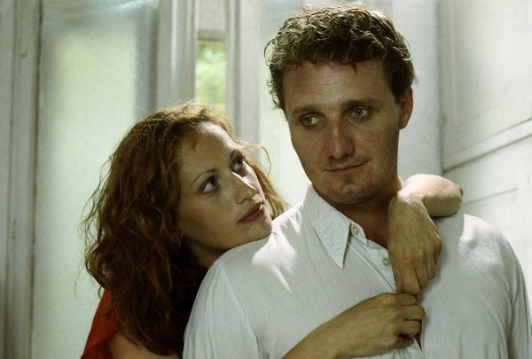 Nóra Benkő and Zoltán Hayth on the the movie 'Csendkút'.